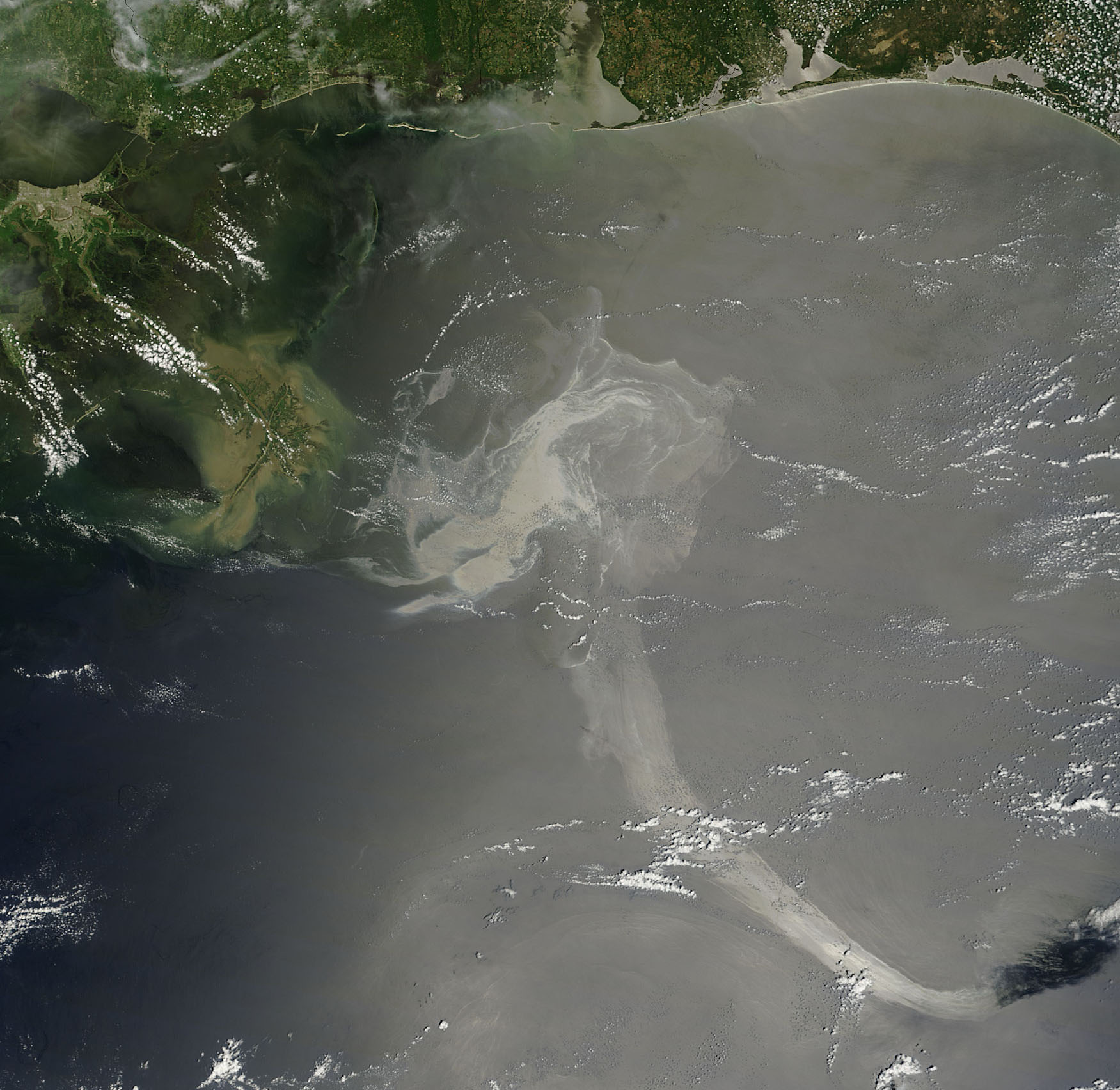 NASA satellite image acquired May 17, 2010 at 16:40 UTC To view the full image go to: Oil slick in the Gulf of Mexico Satellite: Terra NASA/GSFC/Jeff Schmaltz/MODIS Land Rapid Response Team To learn more go to: NASA Goddard Space Flight Center is home to the nation's largest organization of combined scientists, engineers and technologists that build spacecraft, instruments and new technology to study the Earth, the sun, our solar system, and the universe.